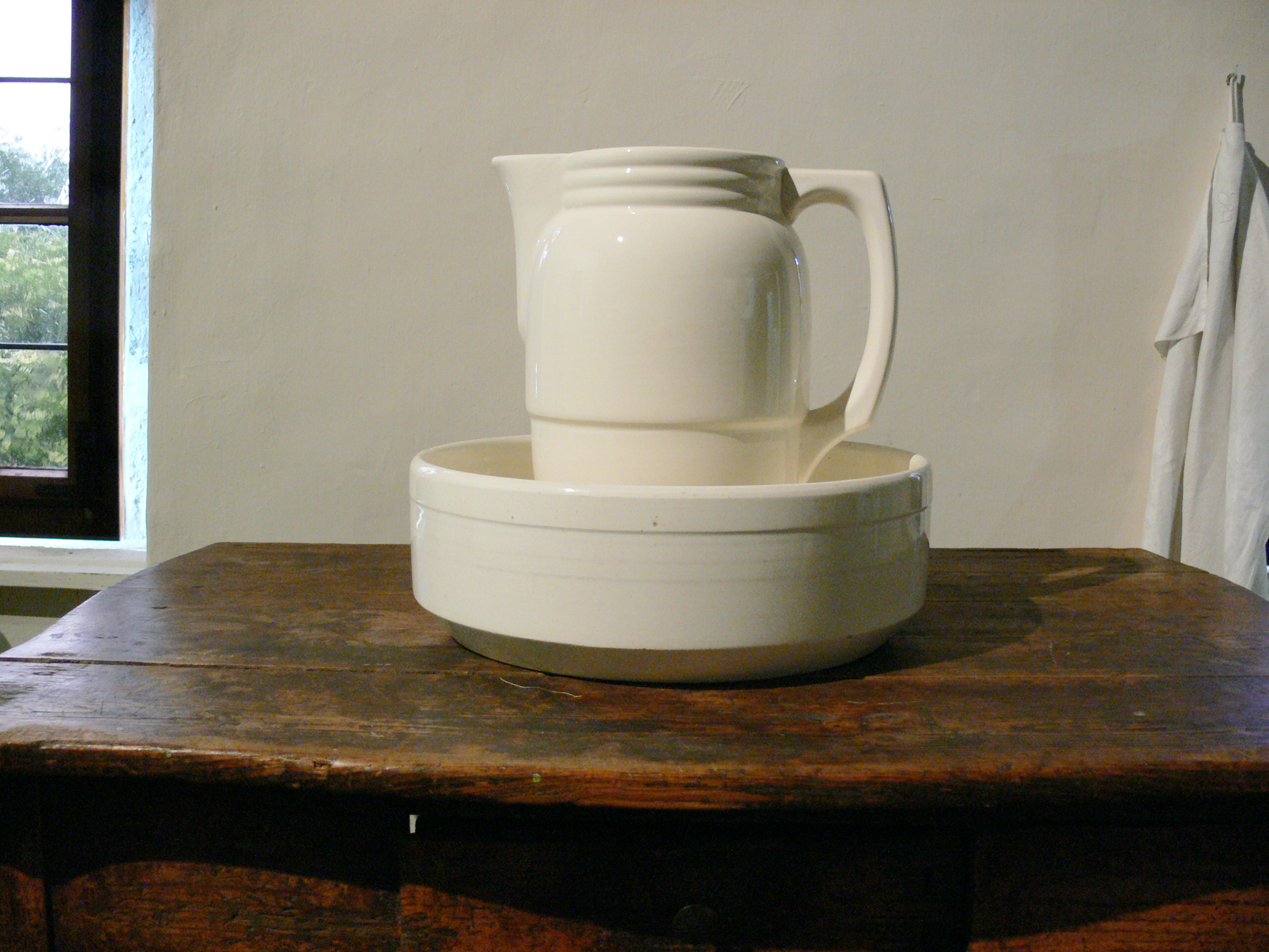 Washing pot with water mug. Museum für Thüringer Volkskunde, Erfurt, Germany.